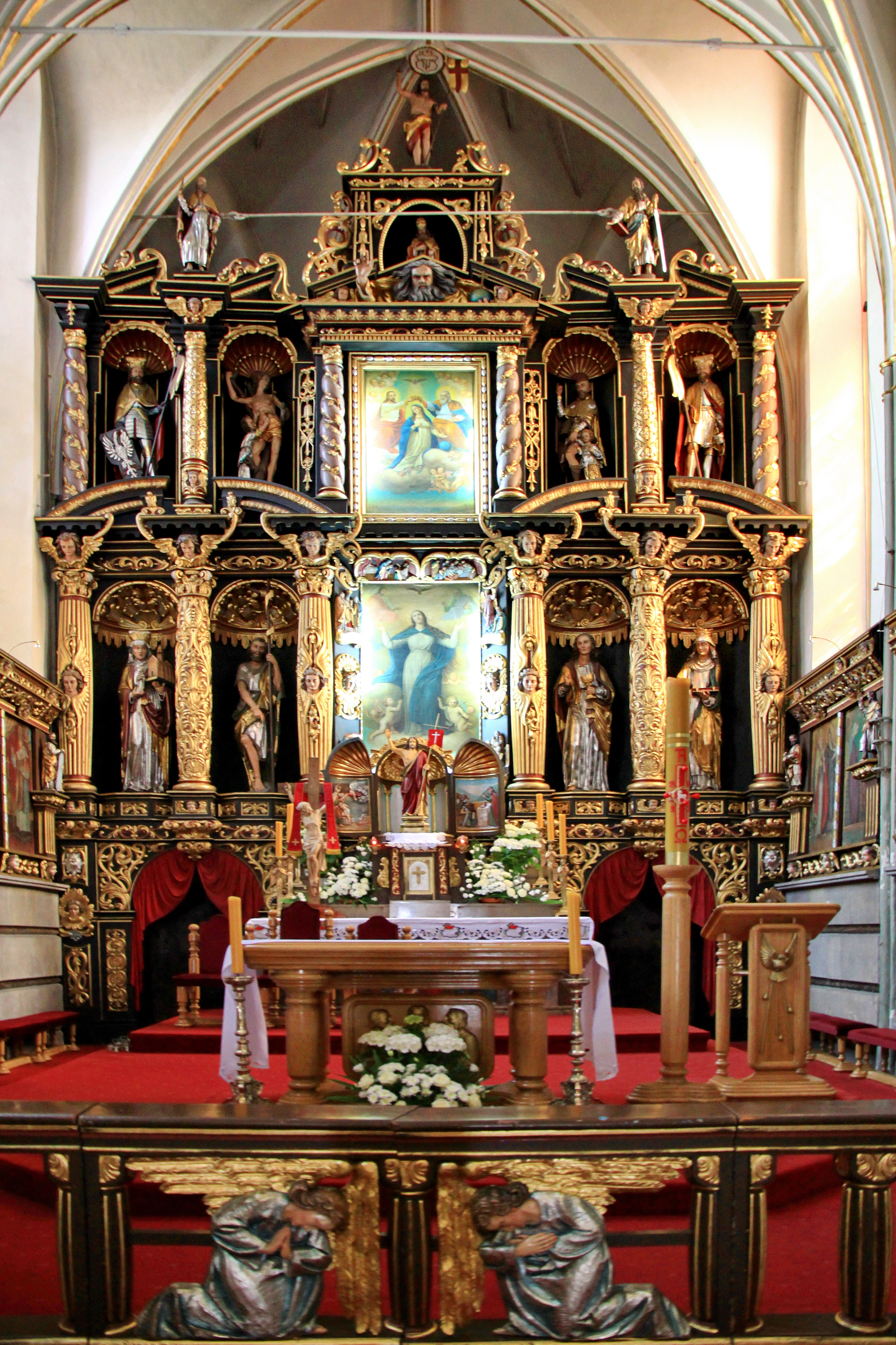 Racibórz, parish church of the Assumption of the Blessed Virgin Mary, build in 14th century, 16th century, 1891, 1948-1849. Altar.